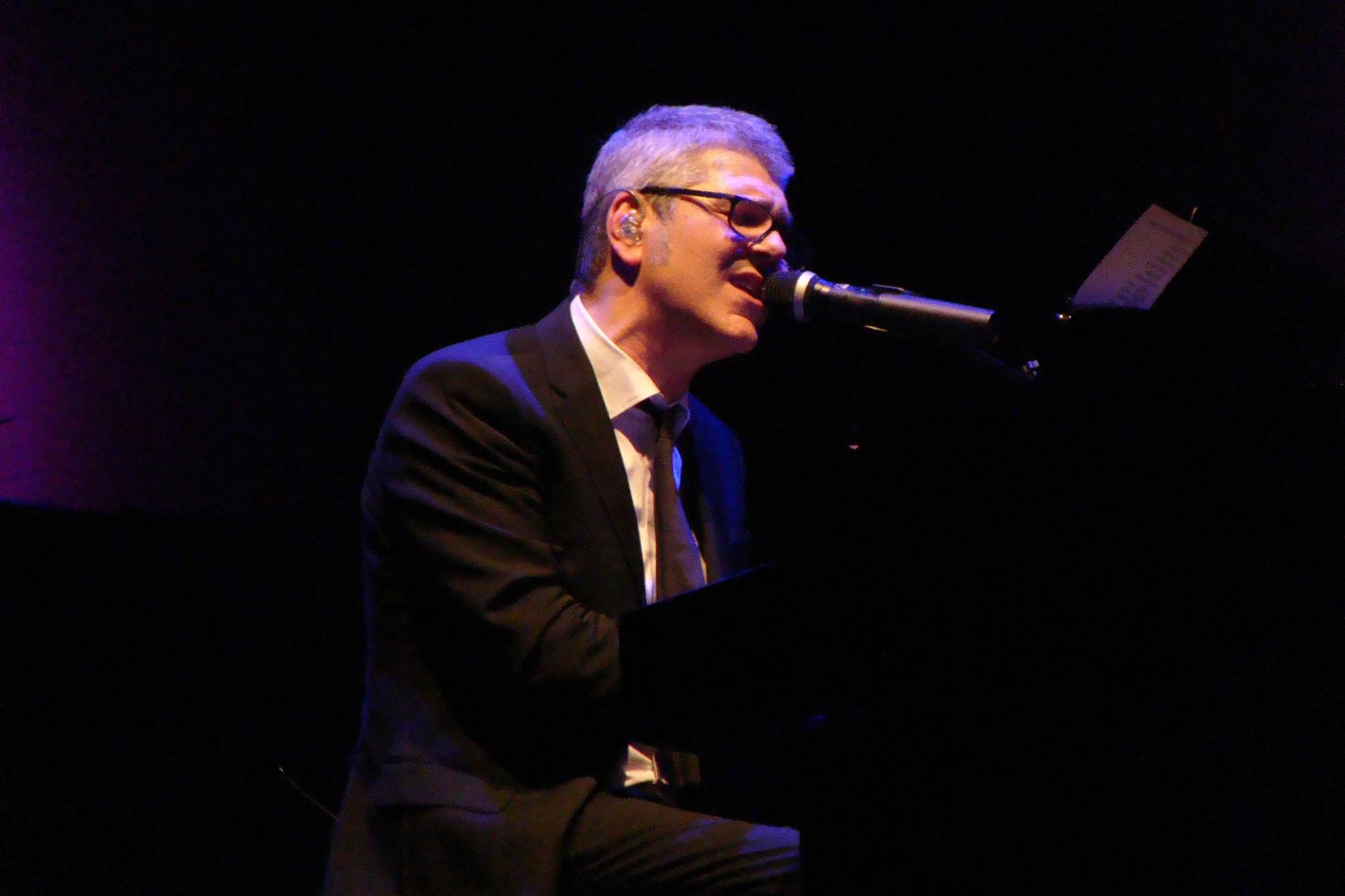 Italian singer-songwriter Michele Zarrillo in concert at Colosseo Theatre in Turin (Italy), 2013.